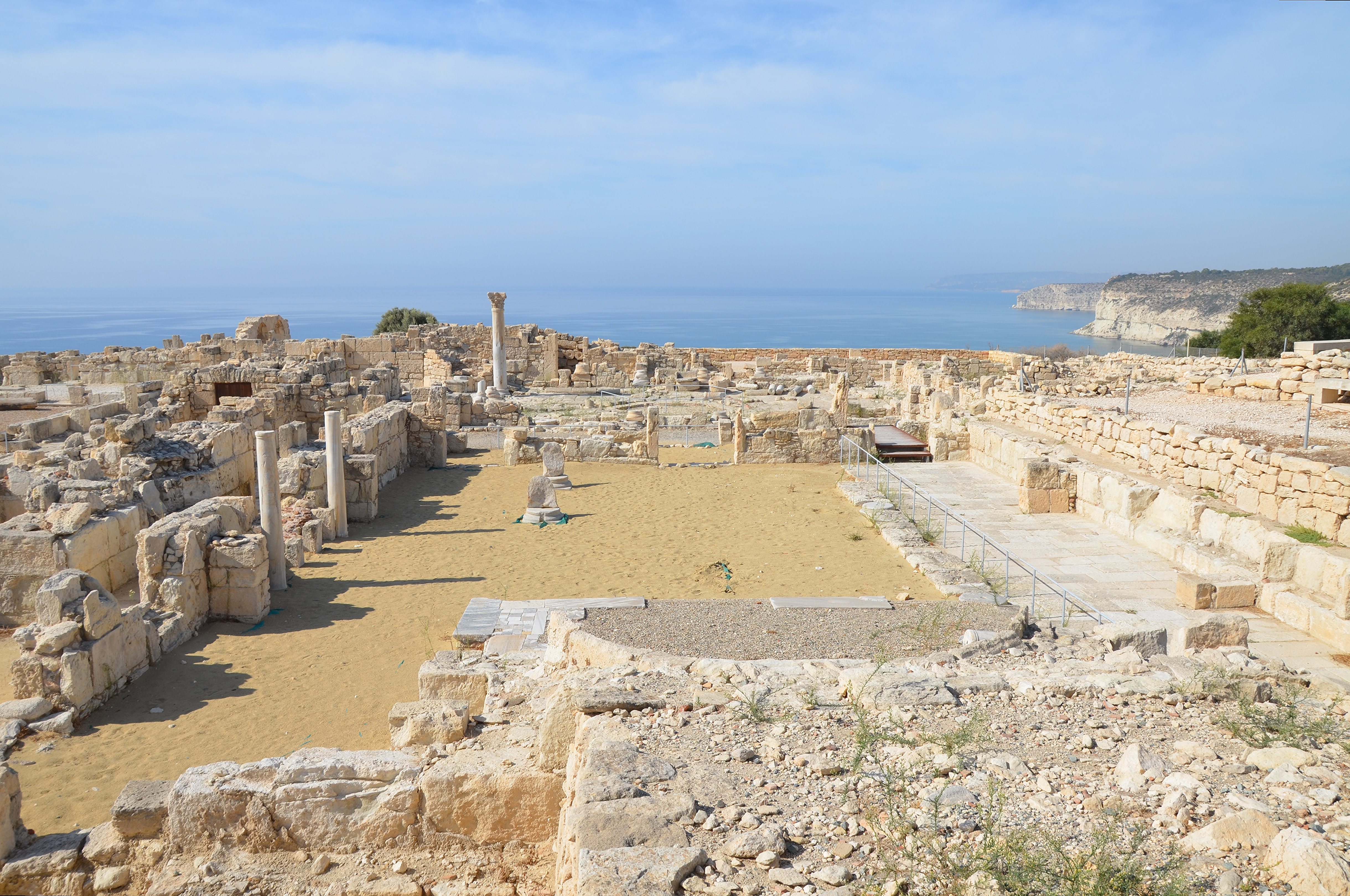 The Early Christian Basilica dating to the beginning of the 5th century AD, Kourion, Cyprus